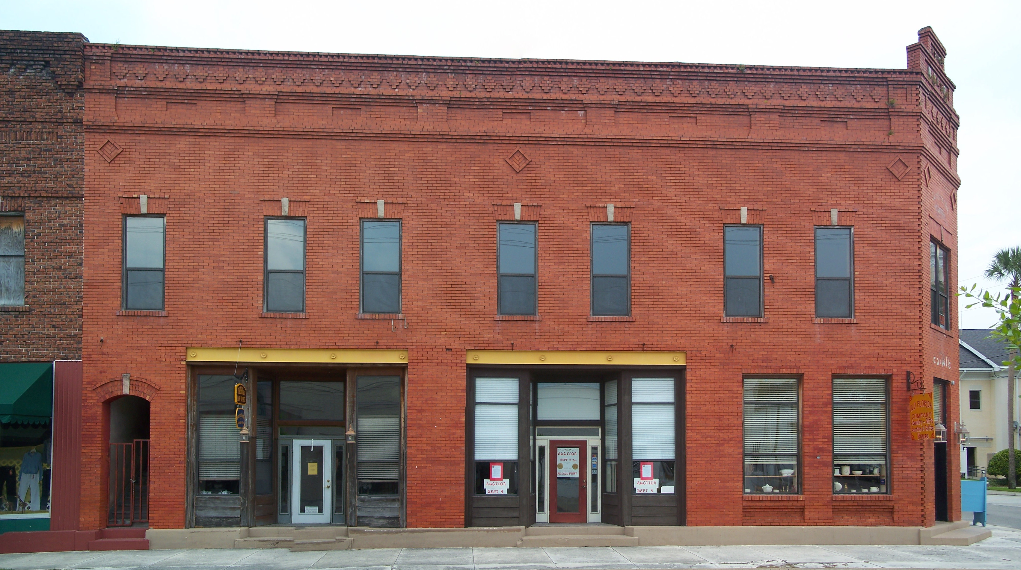 Mayo, Florida: M. Pico Building, on US 27 across from the Lafayette County Courthouse.